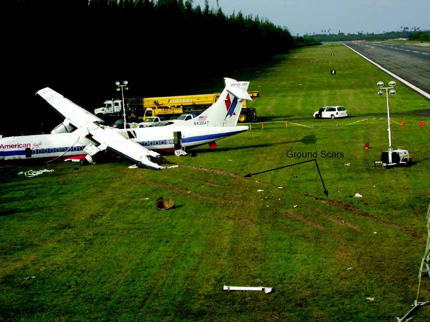 Image of the crash site of American Eagle Flight 5401.